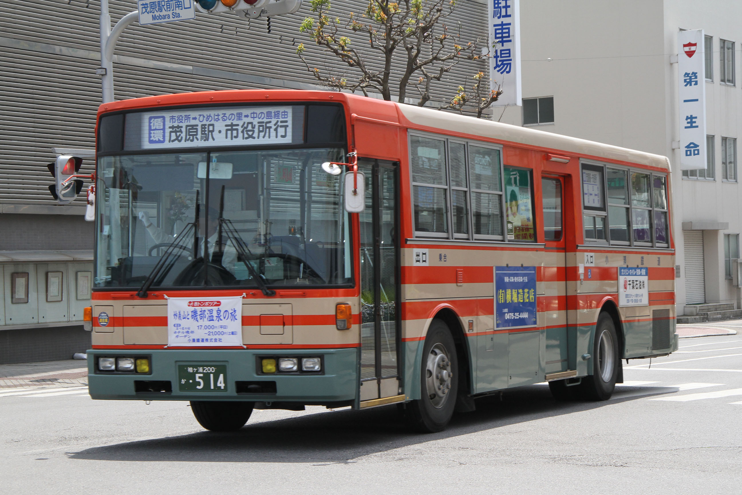 Kominato Railway Bus car 小湊鐵道バスの車両